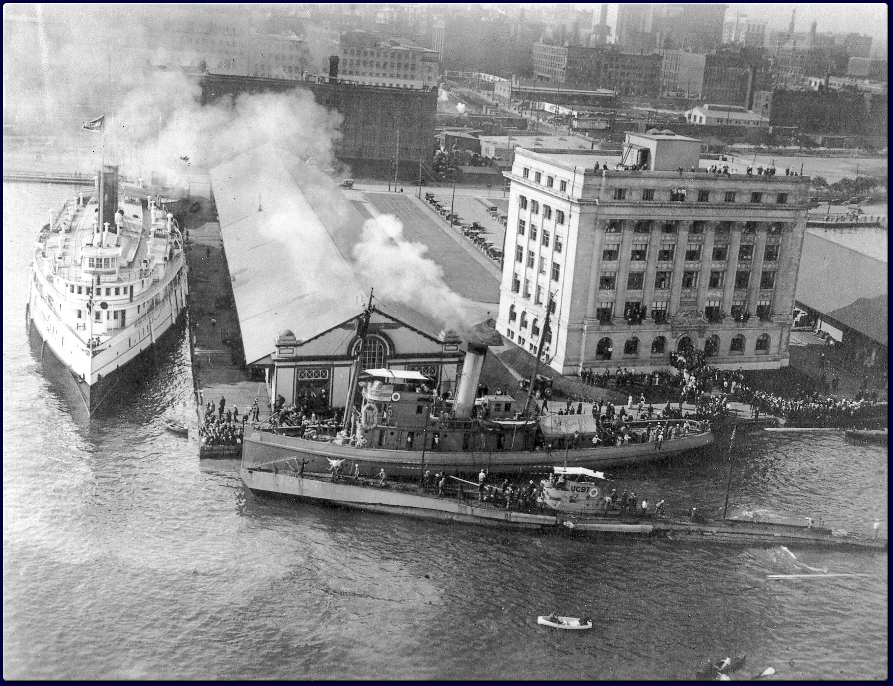 Aerial view of German submarine UC-97 at Toronto, Ontario, Canada.